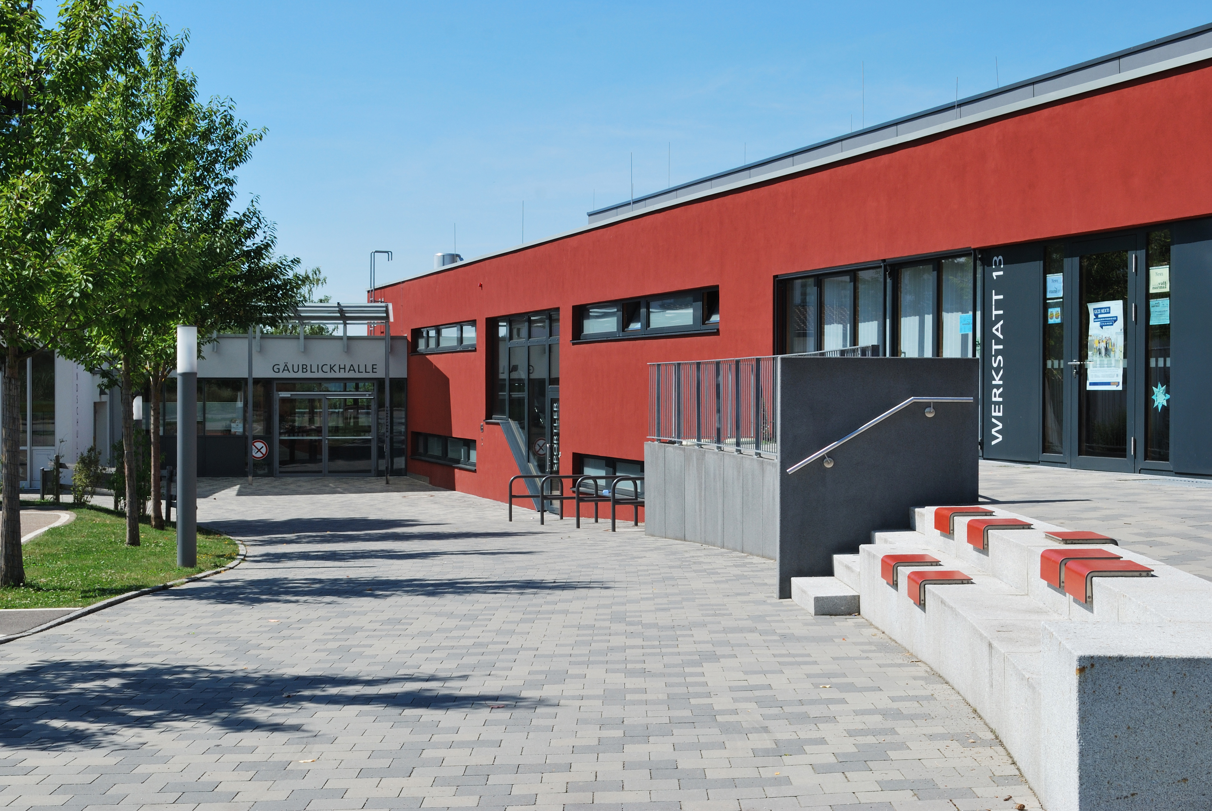 Gäublickhalle in Gebersheim in the German Federal State Baden-Württemberg.